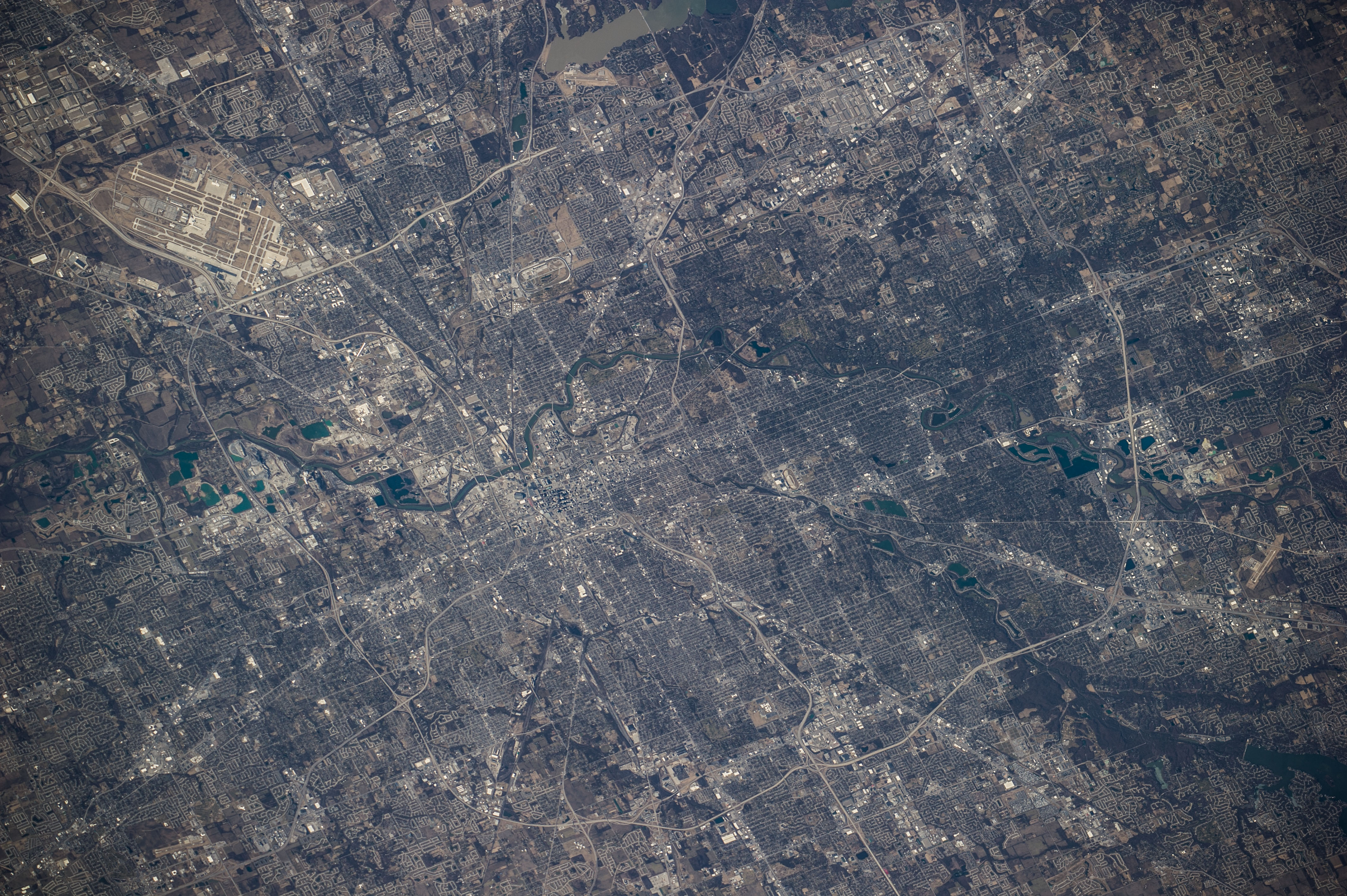 One of the Expedition 34 crew members aboard the International Space Station took advantage of clear skies over Indianapolis, Indiana on Feb. 25 and captured this image of the capital city from a point some 240 miles above Earth.